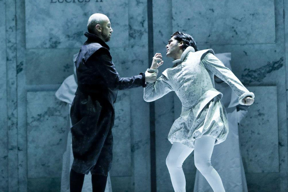 Giancarlo Monsalve, Rafał Siwek, in Verdi's Don Carlo